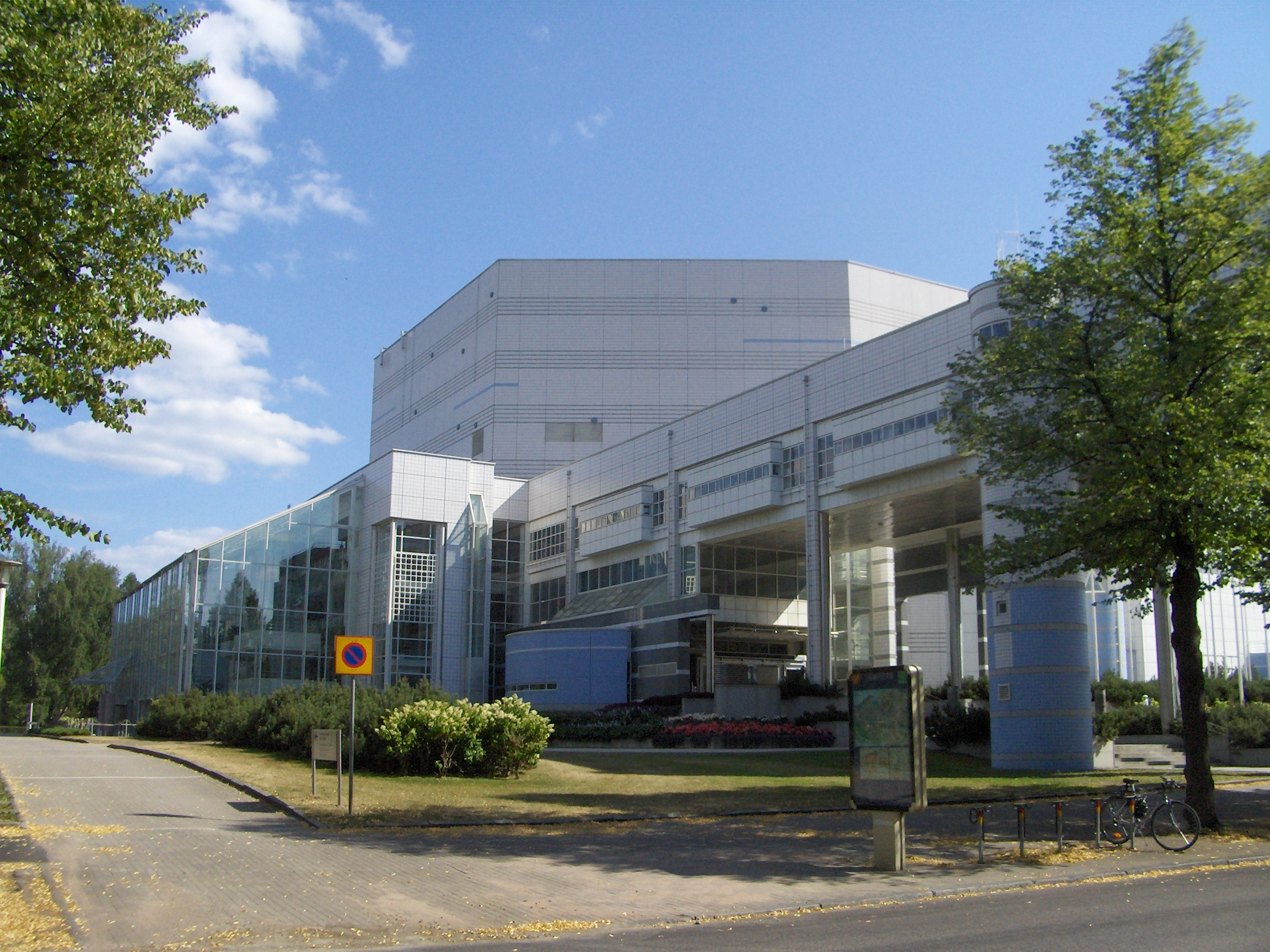 Tampere Hall